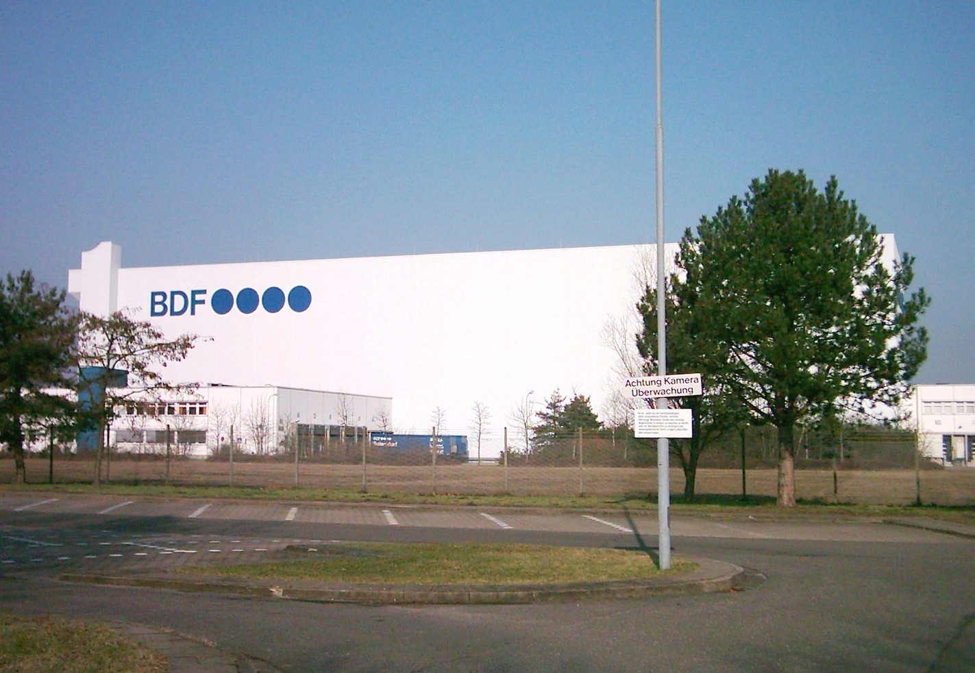 Beiersdorf AG (BDF) in Hamburg-Hausbruch, Germany.